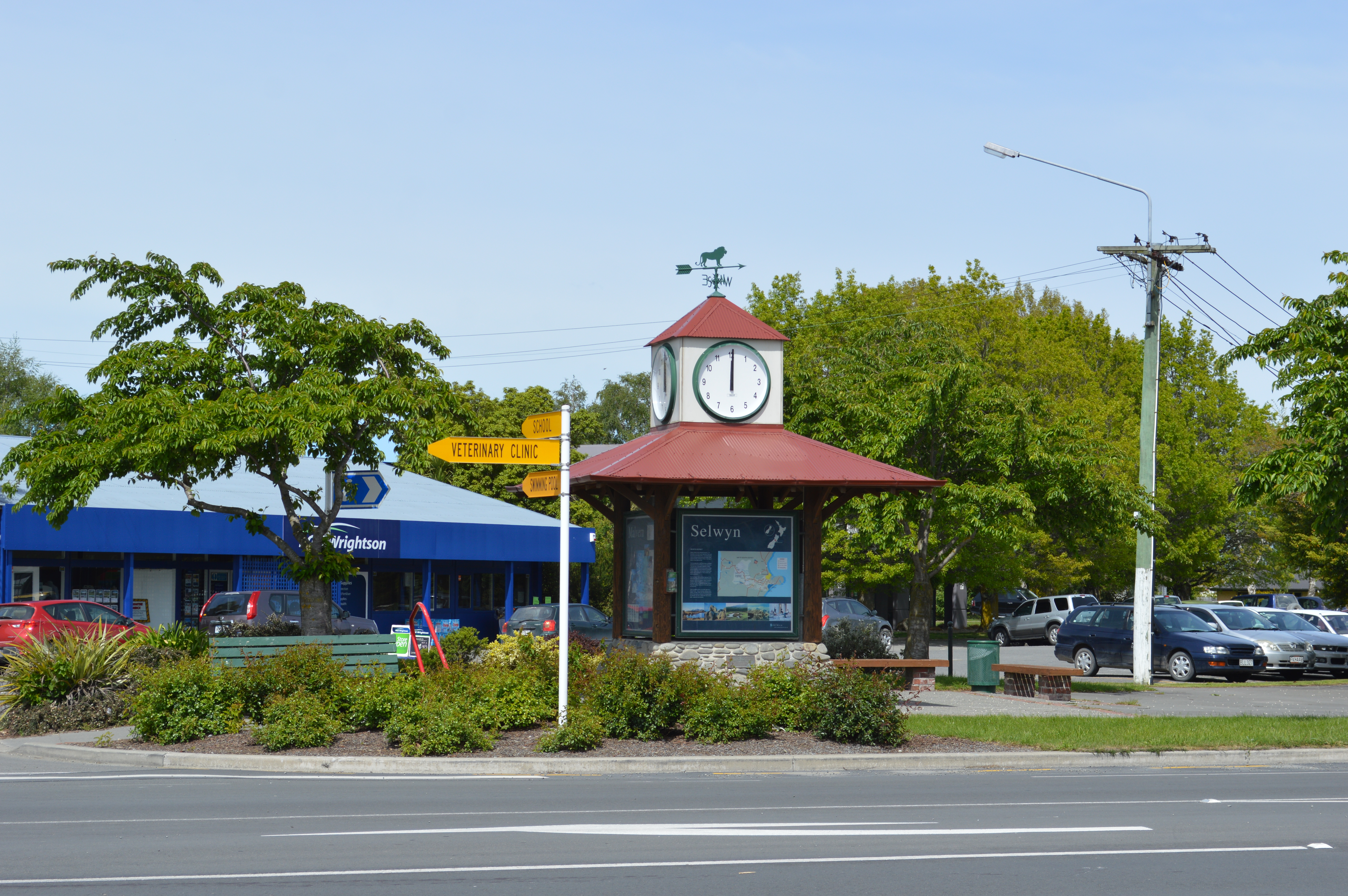 Clock at Darfield, New Zealand